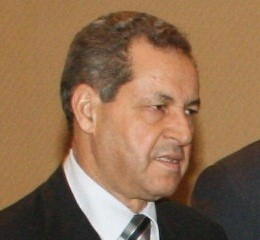 Mohand Laensar (cropped from original image of party leaders of the 2011 Moroccan elections Coalition)